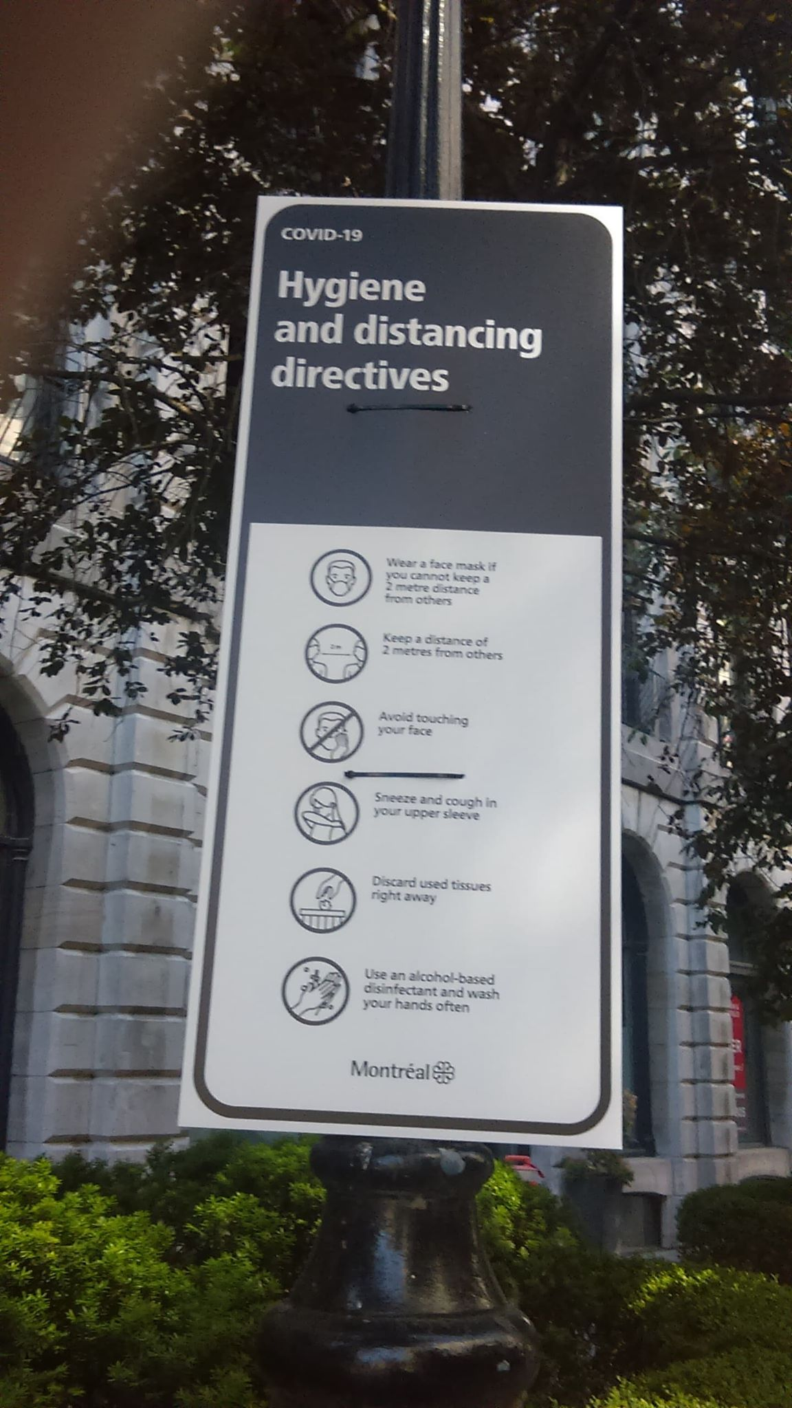 Hygiene and distancing directives